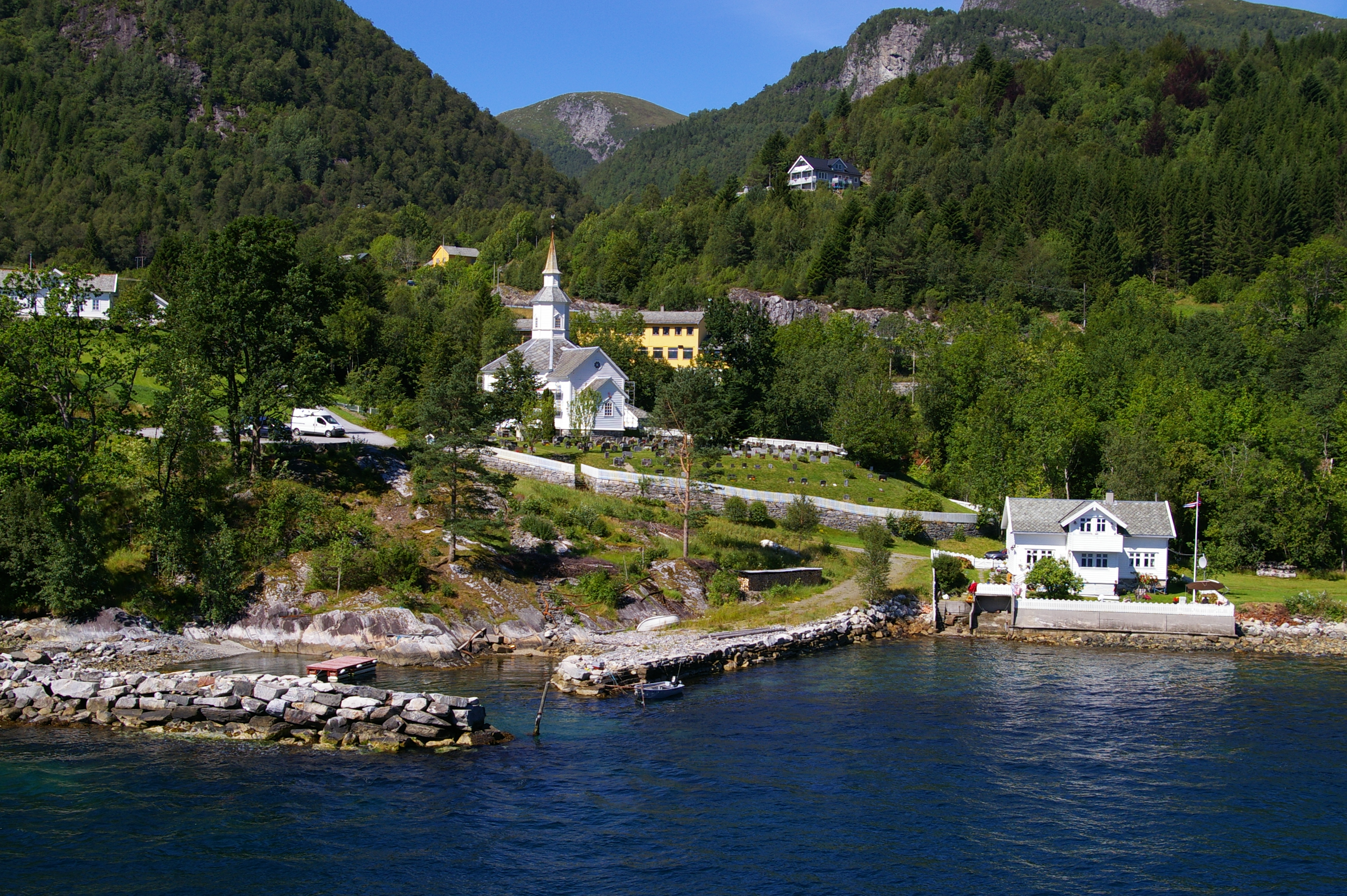 Lavik at Sognefjorden in Høyanger, Sogn og Fjordane, Norway.